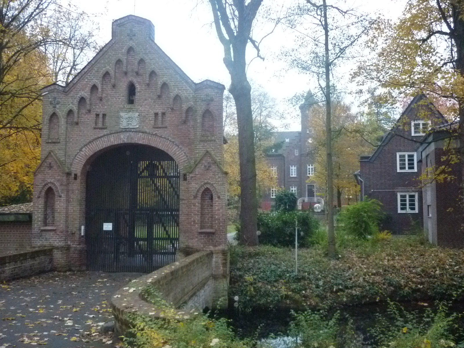 Schloß Reuschenberg (Reuschenberg Palace) in Neuss, Germany